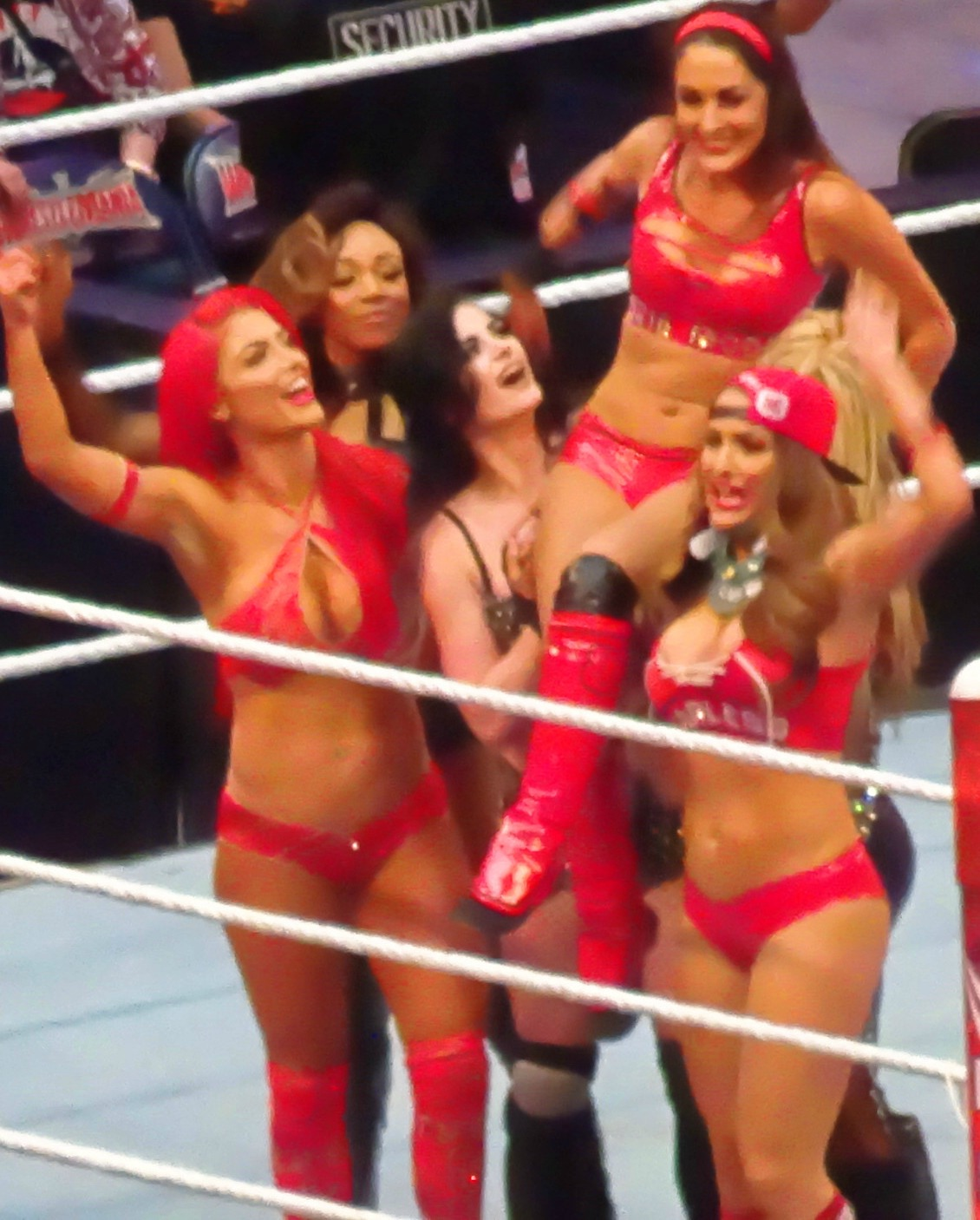 The Total Divas team celebration after defeating Team B.A.D. Blonde at WrestleMania 32 in April 3, 2016.